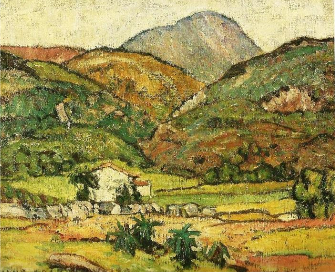 Painting of hills, building, originally titled The Church on the Hill; now titled The House on the Hill, ca. 1911, shown in the 1913 Armory Show